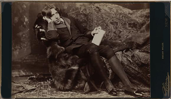 Portrait of Oscar Wilde (1854-1900) in New York, 1882.